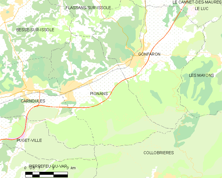 Map of French municipality Pignans